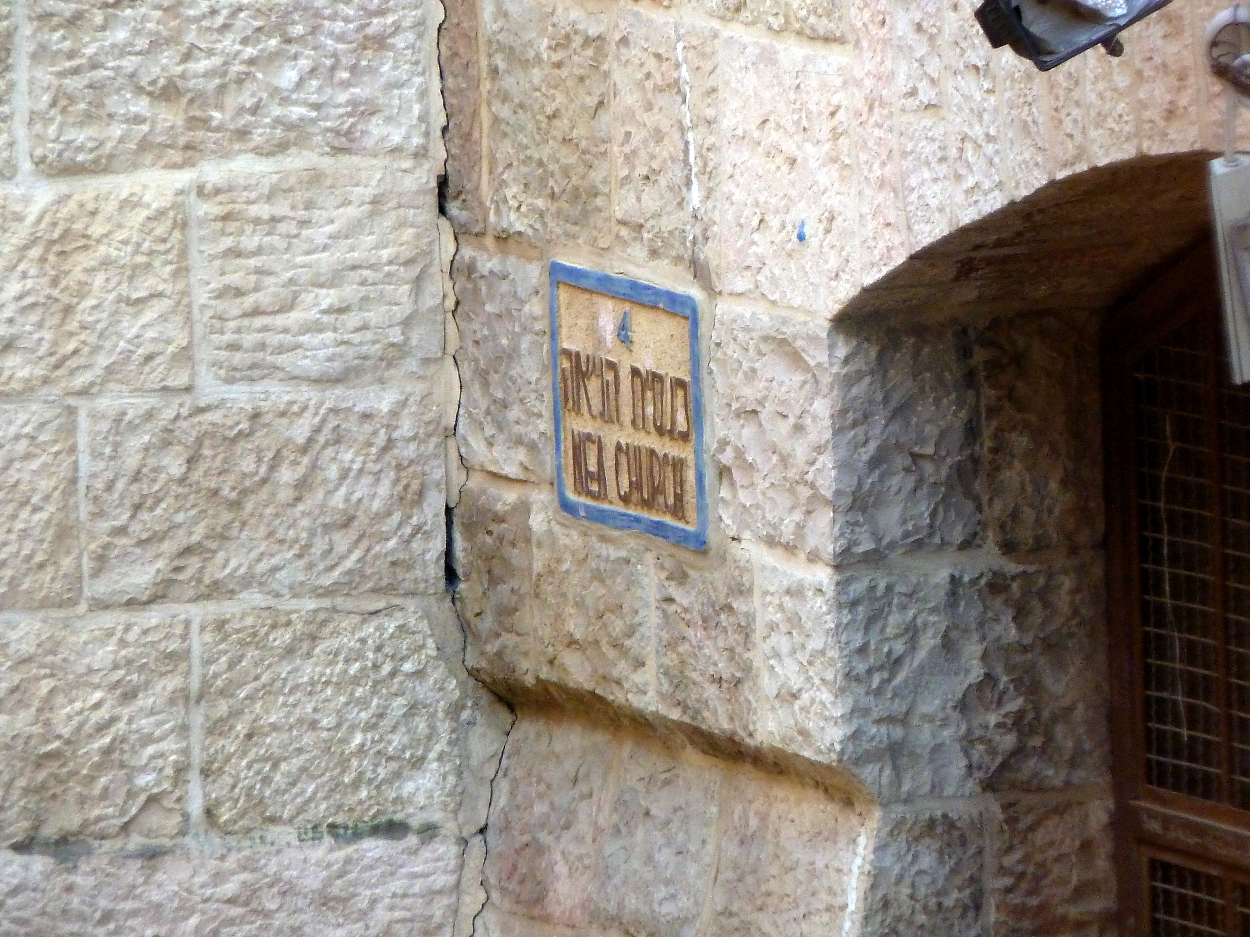 Old Jerusalem סיורובע Nea church sign